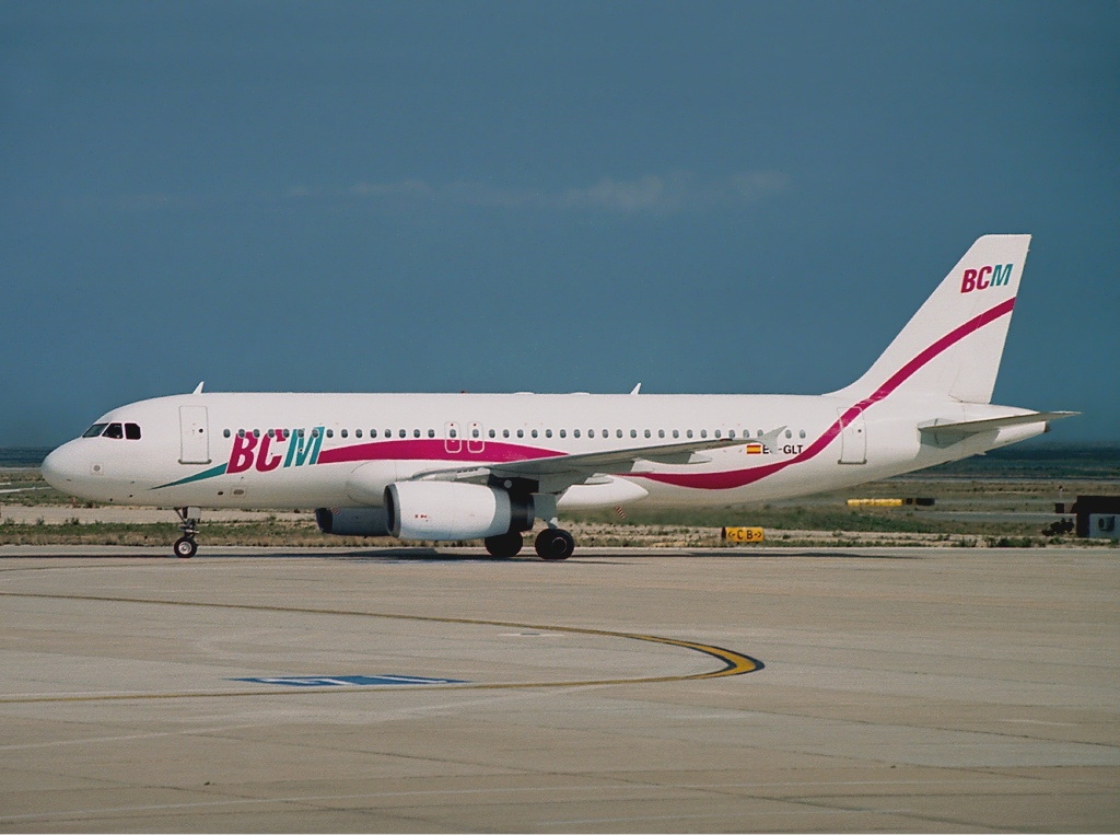 BCM Airlines Airbus A320